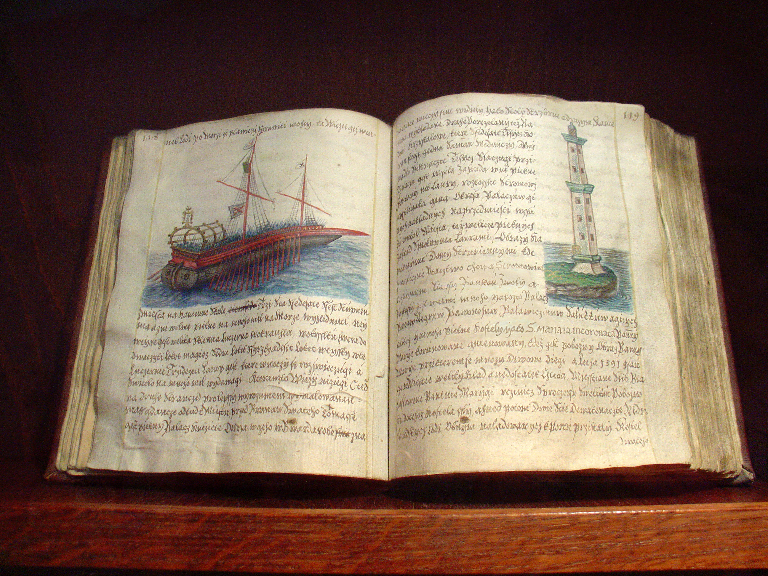 Travel's story from BEDŘICH de DONÍN. Beginning of the XVIIth century. Remarquable draws show life at this time. Exposed in Strahov monastary's library, Prague.